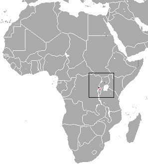 Tarella Shrew (Crocidura tarella) range